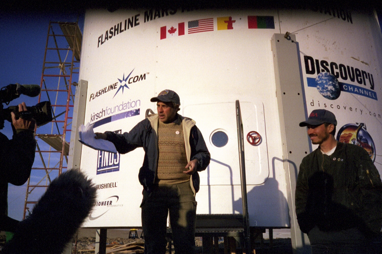 Robert Zubrin gives a speech at the commissioning of the Flashline Mars Arctic Research Station, on Devon Island in the Canadian Arctic.